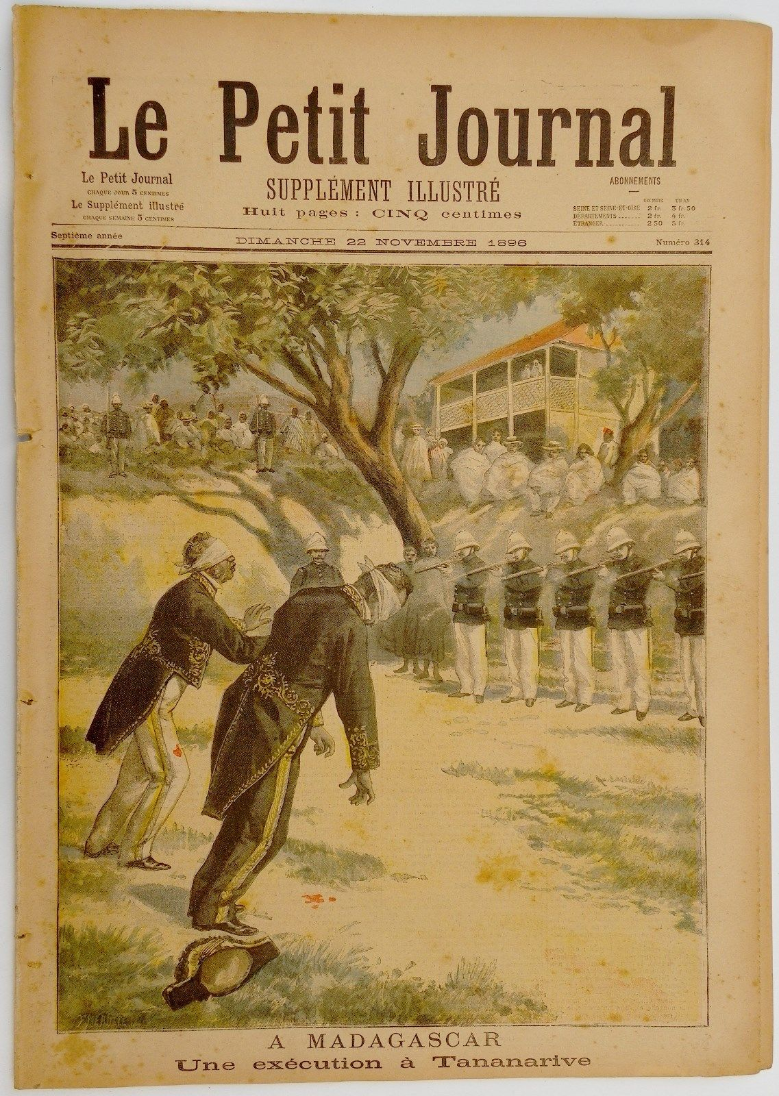 First page of the illustrated supplement of the 22 November 1996 issue of the French newspaper Le Petit Journal showing the recent execution of Prince Ratsimamanga and the Minister of the Interior Rainandriamampandry under order of General Galliéni for having resisted France's annexation of Madagascar.